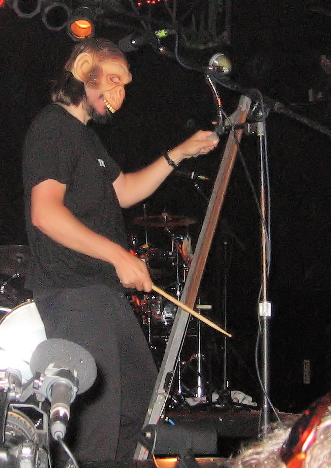 Les Claypool playing the Whamola while on tour for "Of Whales and Woe."